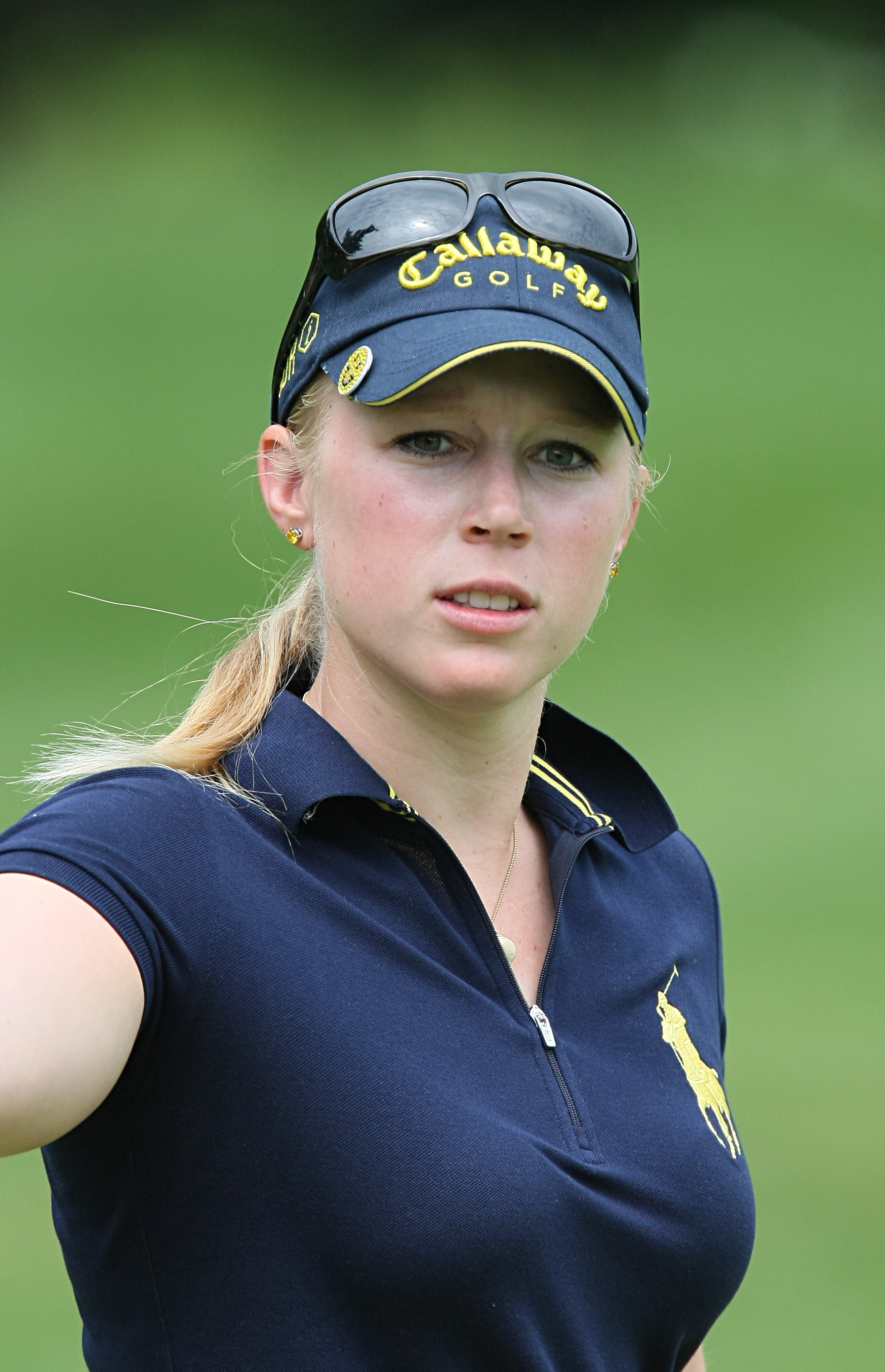 Golfer Morgan Pressel on June 8, 2009, during the Pro-Am before the 2009 LPGA Championship at Bulle Rock Golf Course in Havre de Grace, Maryland.